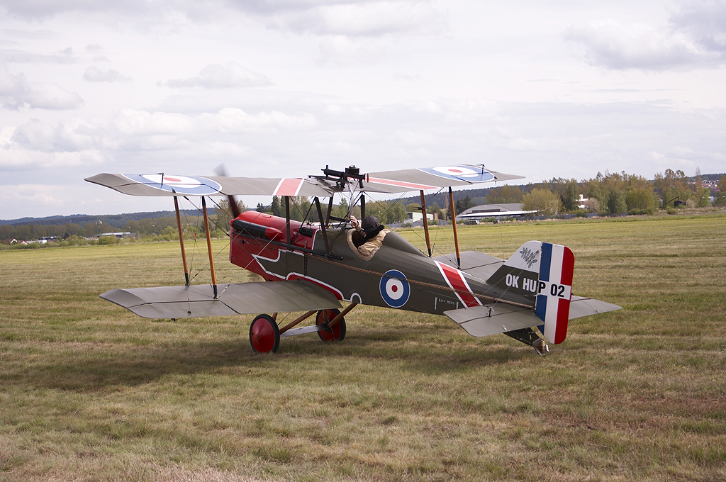 Royal Aircraft actory S.E.5a replica